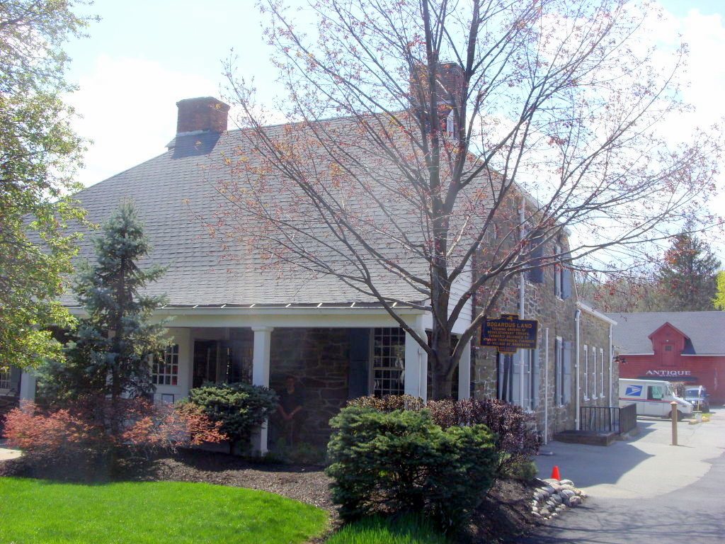 The Rhinebeck U.S. Post Office — in Rhinebeck, Dutchess County, New York. 1940 stone Colonial Revival style building by the WPA—Works Progress Administration. A contributing property in the Rhinebeck Village Historic District, and on the National Register of Historic Places in Dutchess County, New York. -# 042609 721